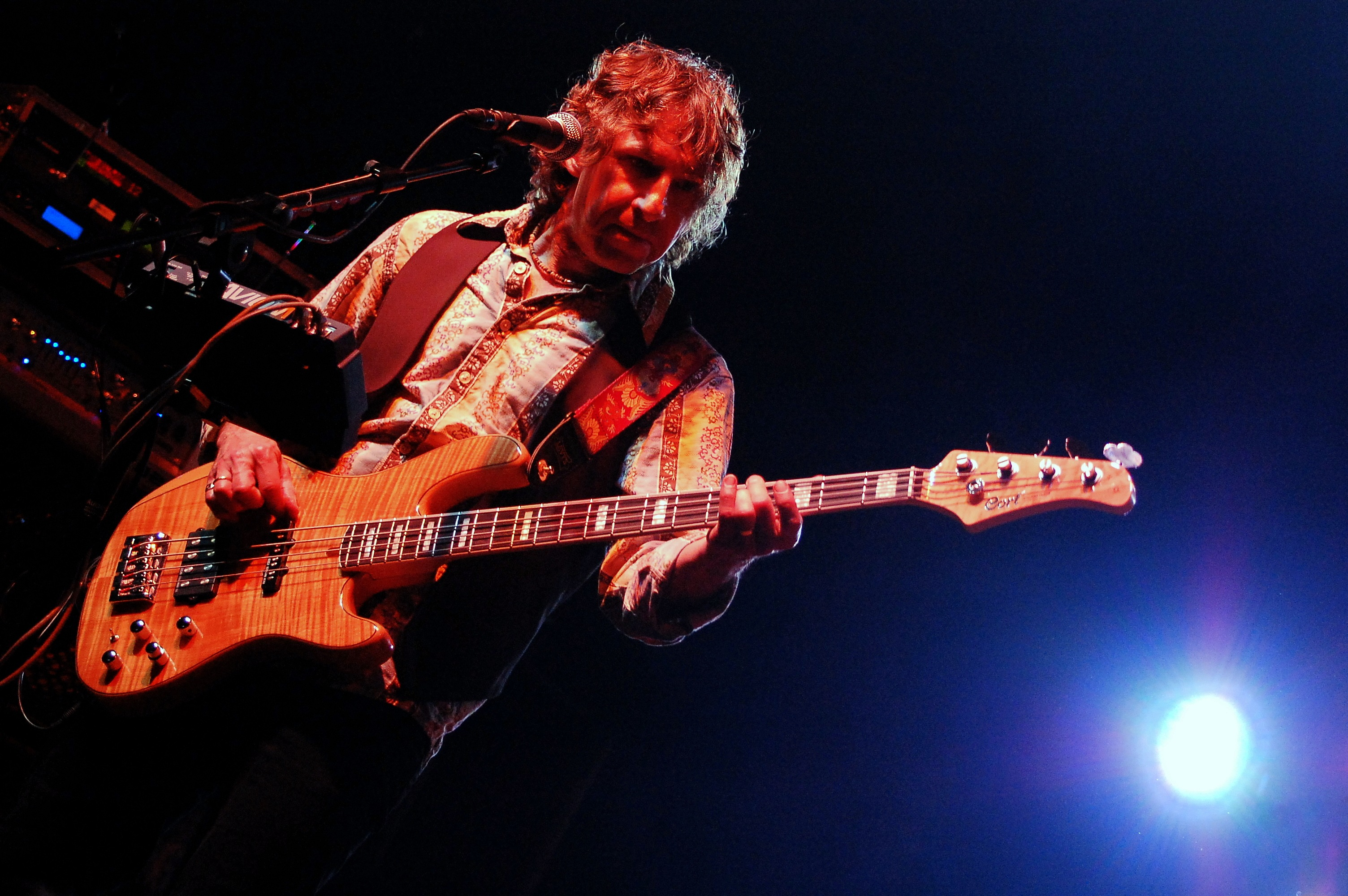 Pete Trewavas - Marillion - Live in Kraków, Poland 2009